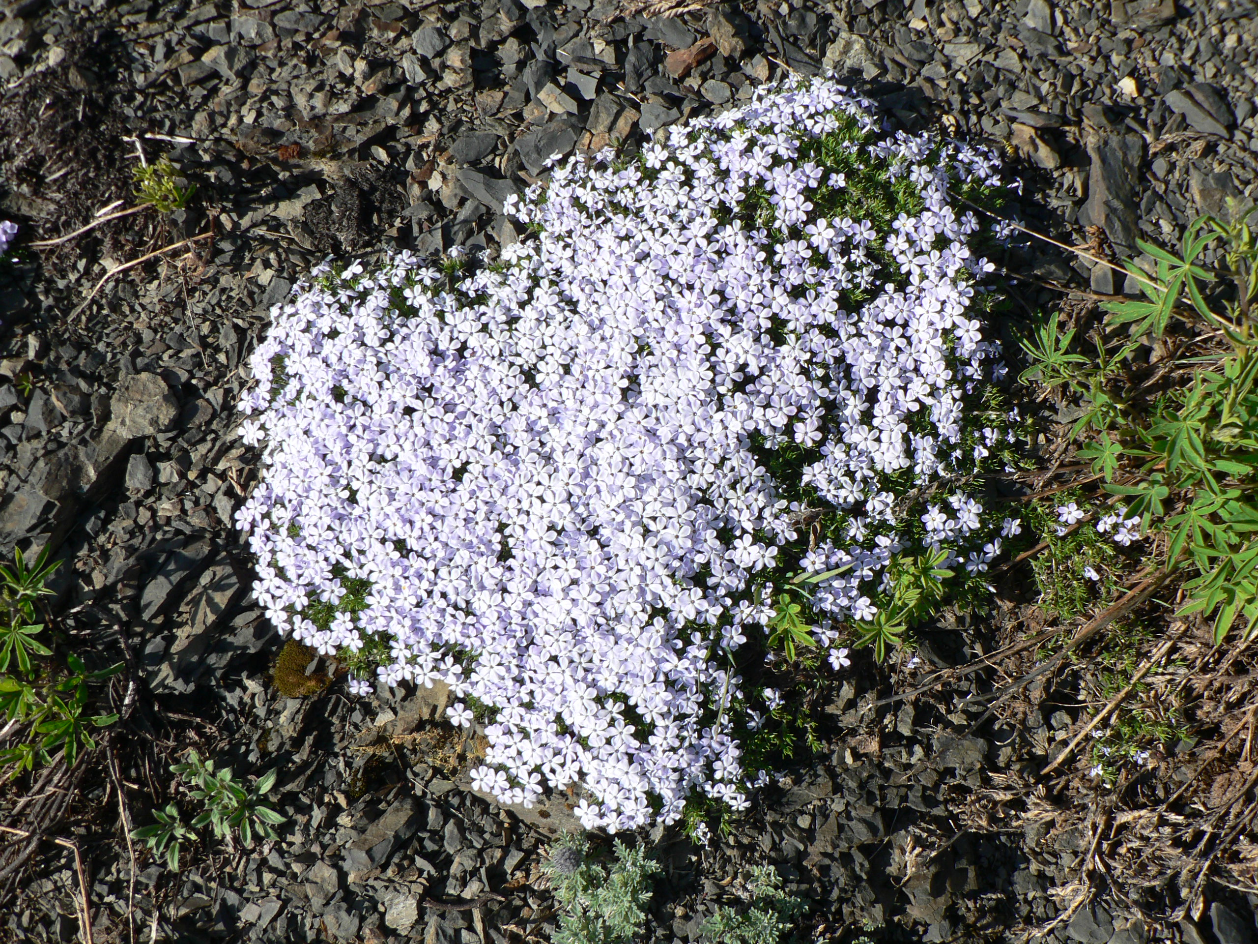 Spreading Phlox